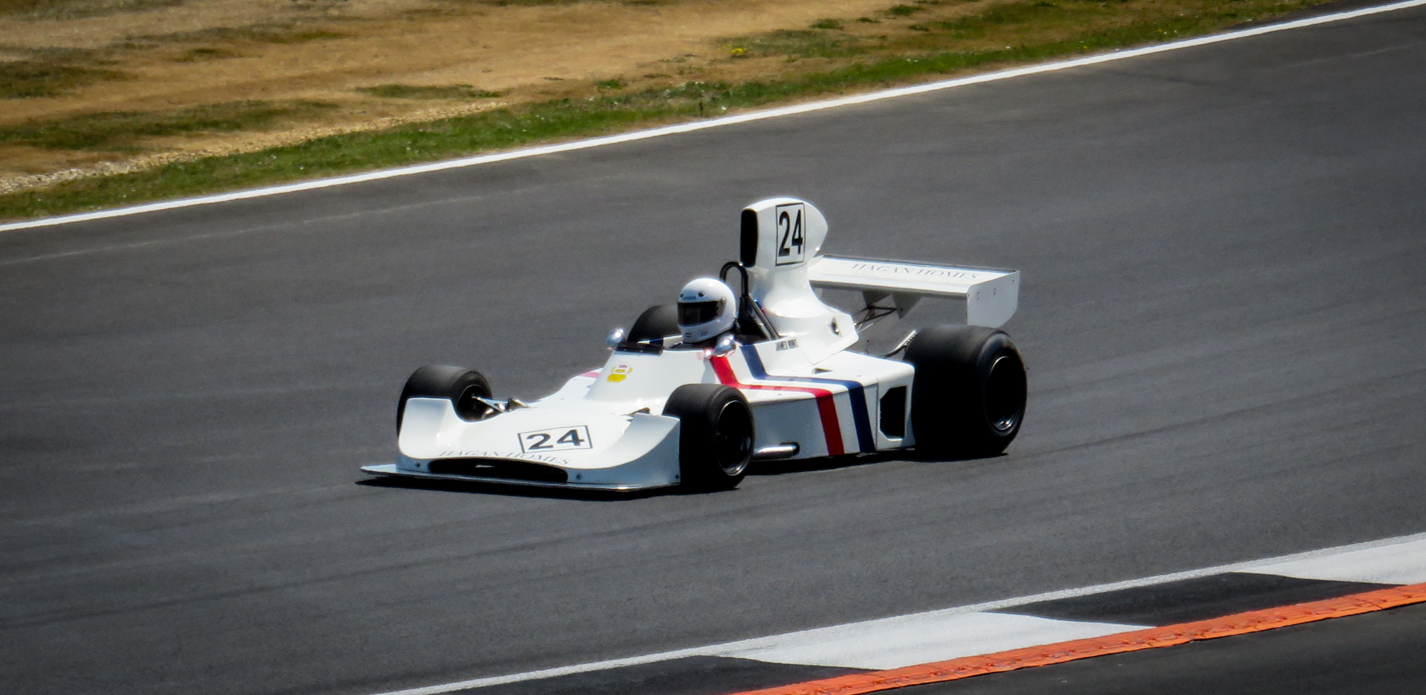 James Hunt Hesketh 308 2018 British Grand Prix.